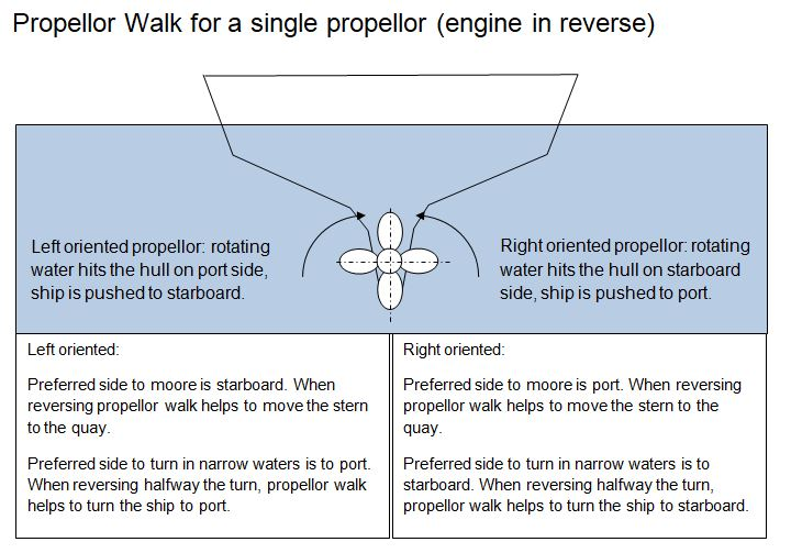 Propellor walk single propellor